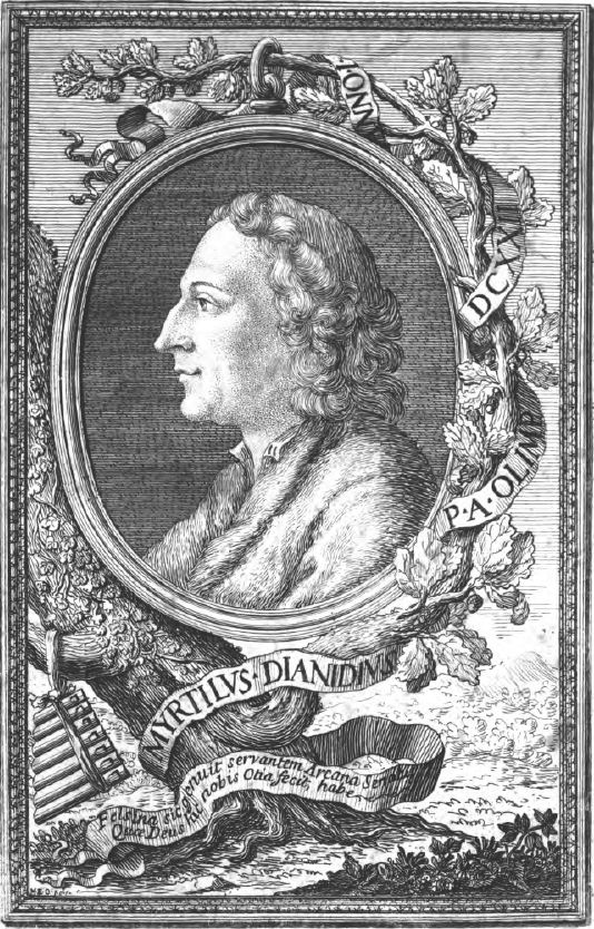 Portrait of Pier Jacopo Martello (1665-1727), Italian poet